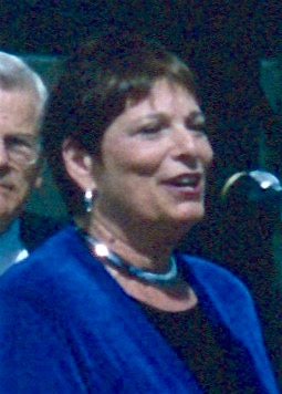 Mayor Vera Katz, of Portland, Oregon, in 1997. Katz was speaking at a ceremony celebrating the completion of the extension of the MAX light rail system westward to the Kings Hill neighborhood, on August 29, 1997 (service did not start until two days later). The ceremony was held at the Kings Hill/SW Salmon Street MAX station.